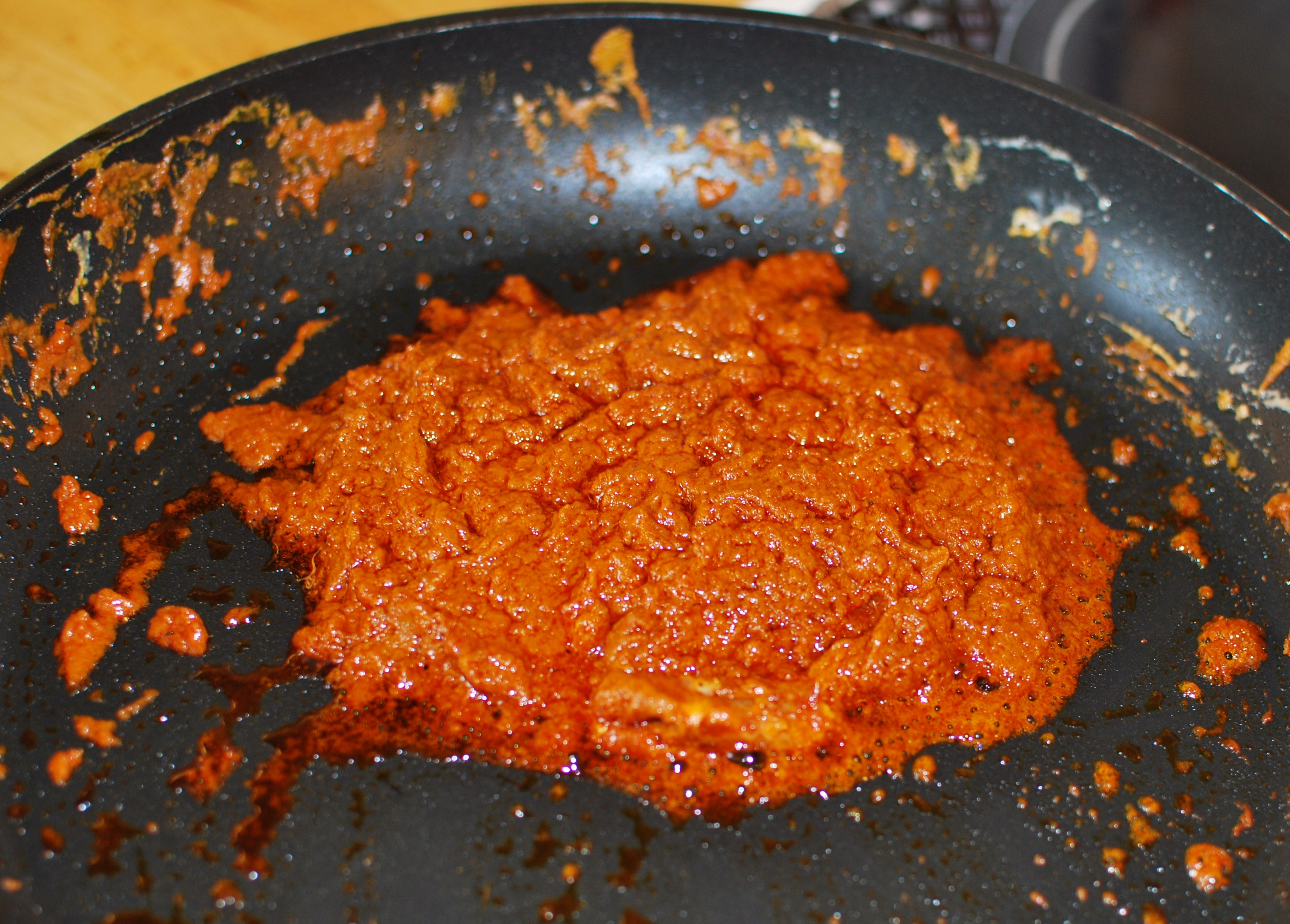 Curry paste (here Panang) fried with coco cream, to make a Thai curry